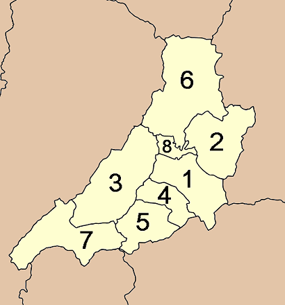 Map of the province Phrae with the districts (Amphoe) numbered. Mueang Phrae Rong Kwang Long Sung Men Den Chai Song Wang Chin Nong Muang Kai